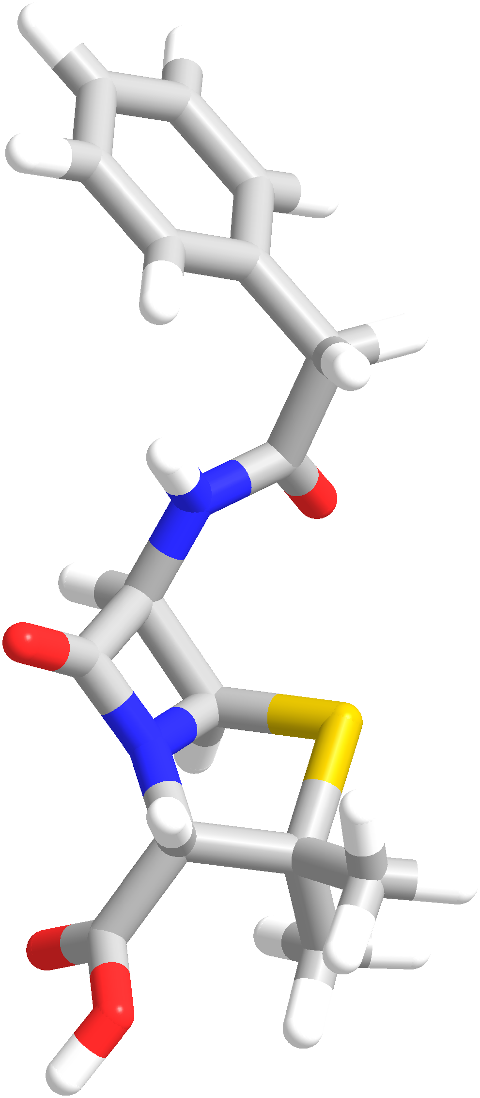 Chemical structure of Penicillin G